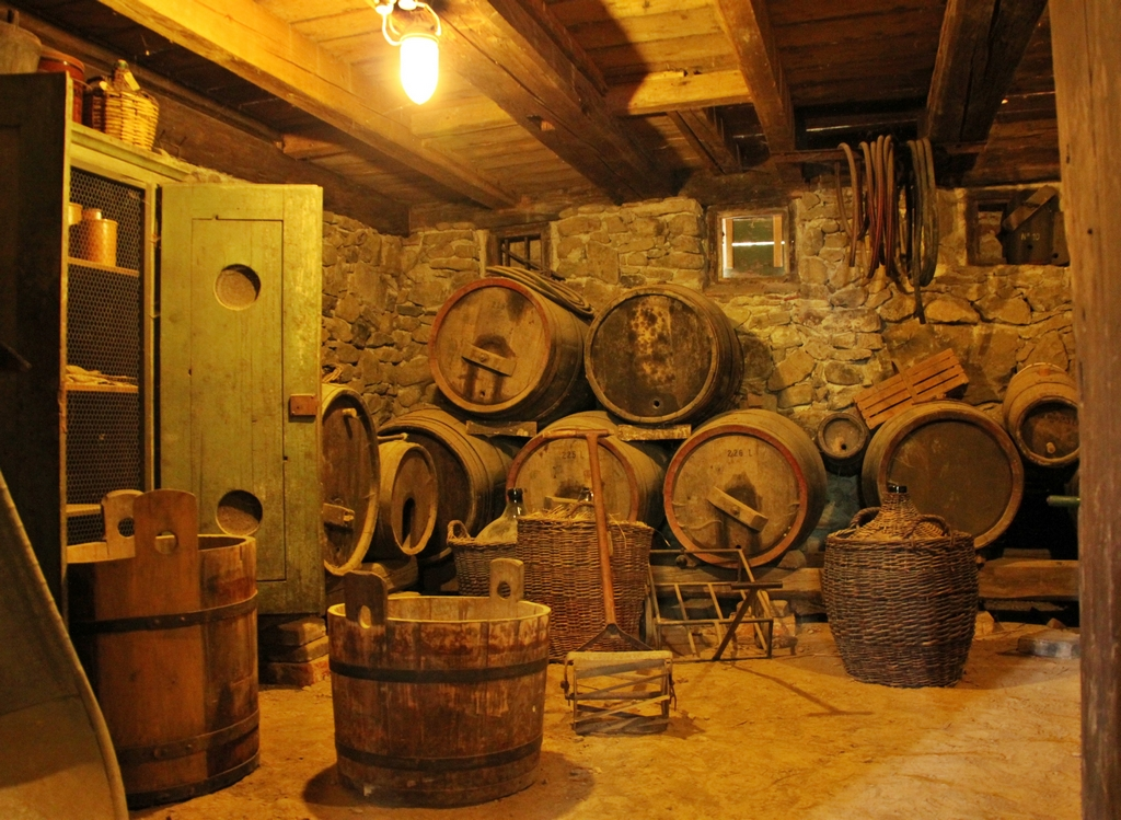 The Farmhouse Museum in Wolfegg in the Southeast of Baden-Württemberg shows historic agricultural technology and crafts. 15 historic buildings from Upper Swabia and the West Allgäu regions were translocated to the open-air museum grounds.